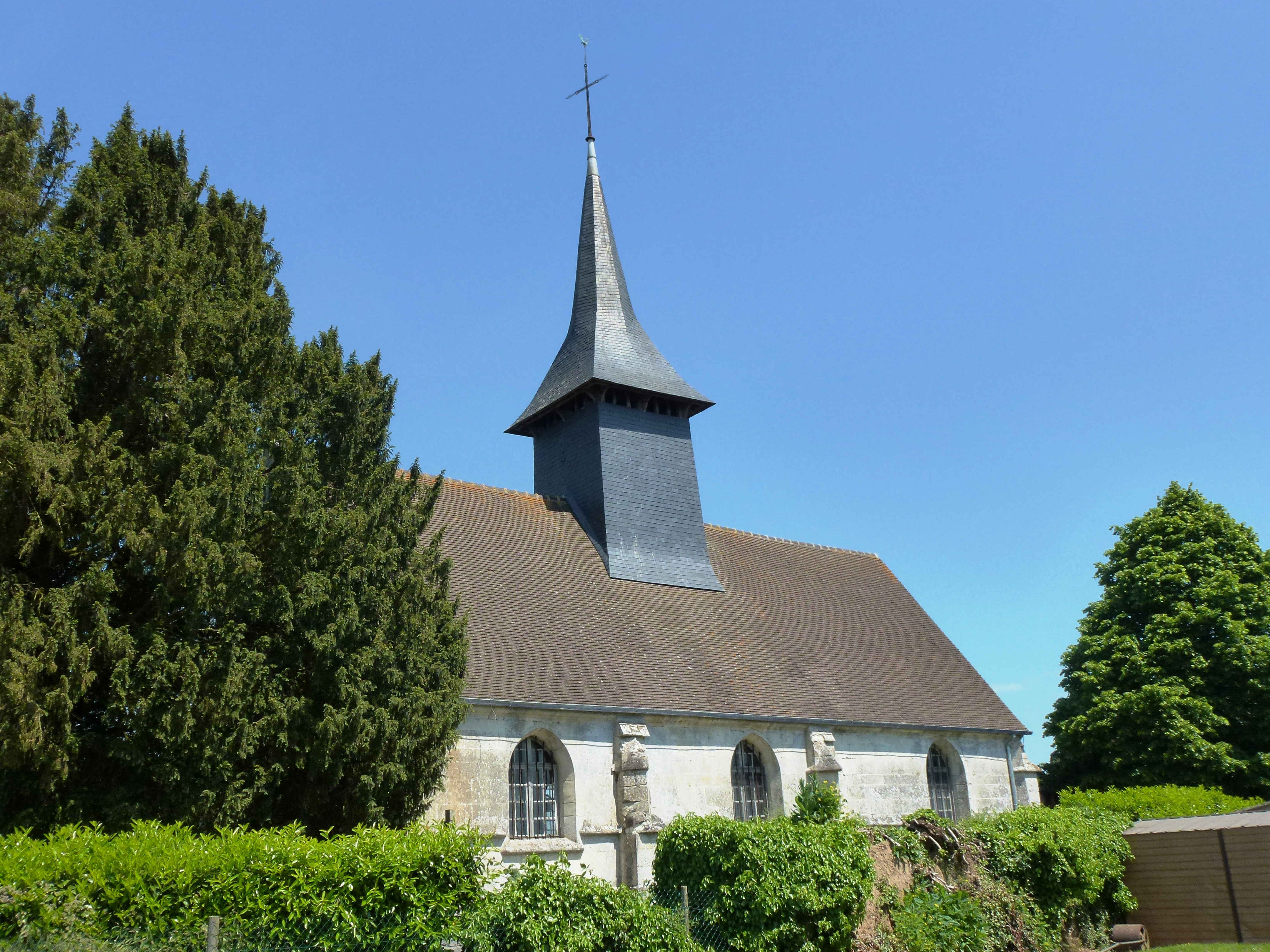 Romilly-la-Puthenaye (Eure, Fr) église Saint-Aubin de La Puthenaye